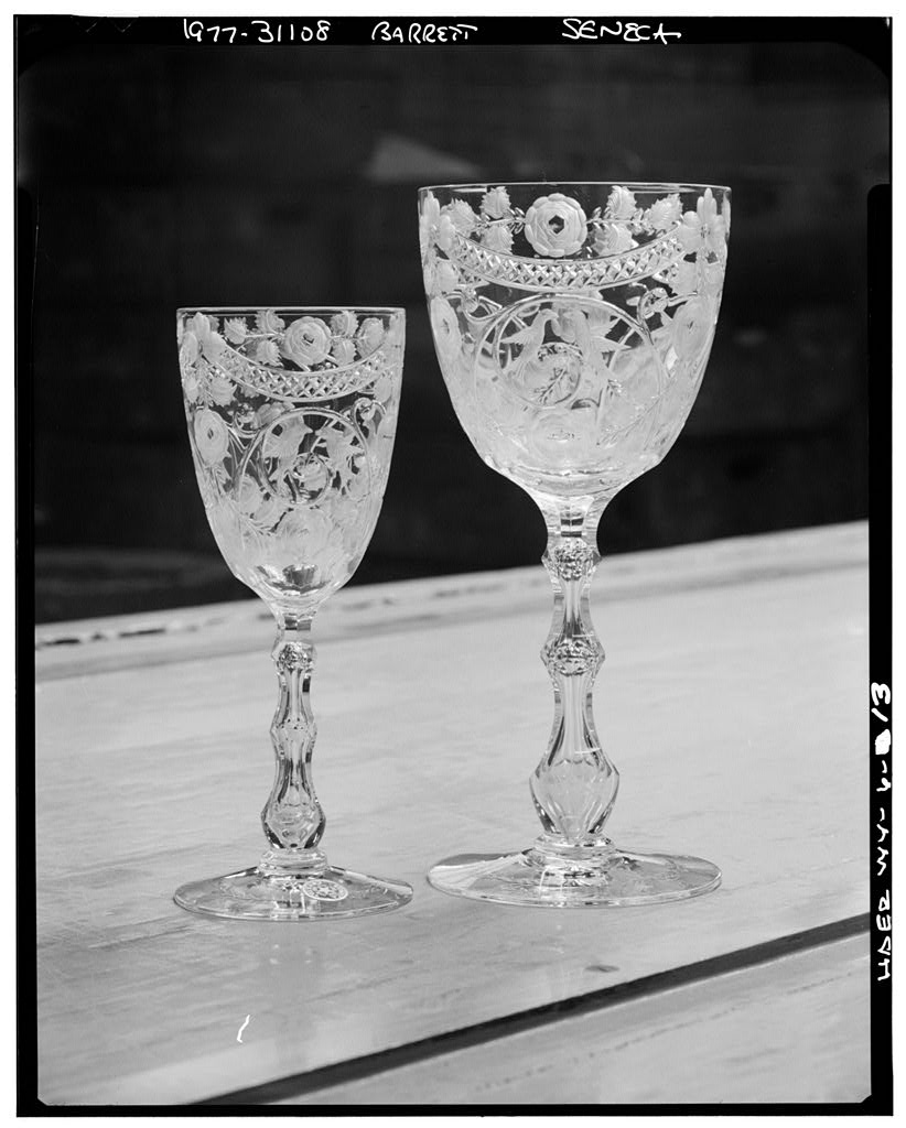 Glassware made by the Seneca Glass Company, which existed in Morgantown, West Virginia, United States. The now closed company's complex is listed in the National Register of Historic Places